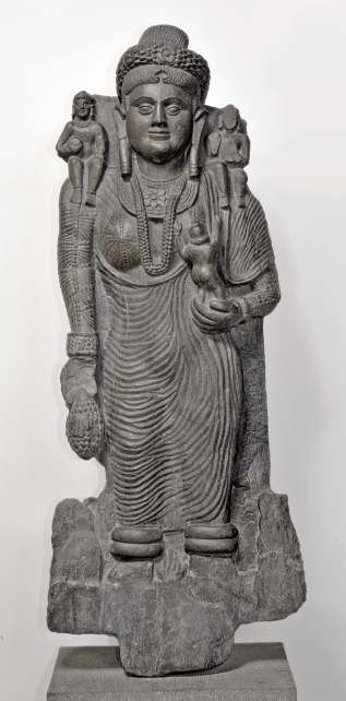 Hariti 132 X 54 cms c. 2nd century A.D. Skarah Dheri Acc.No-1625